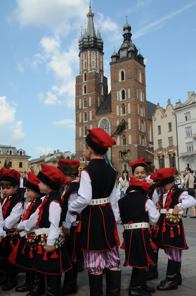 Polish children dress in local costume in Krakow city centre square